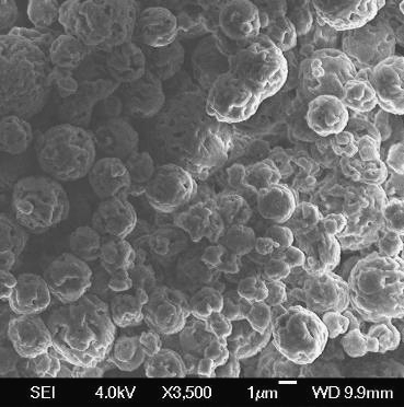 SEM picture of Grisofulvin particles produced by a nano spray dryer.